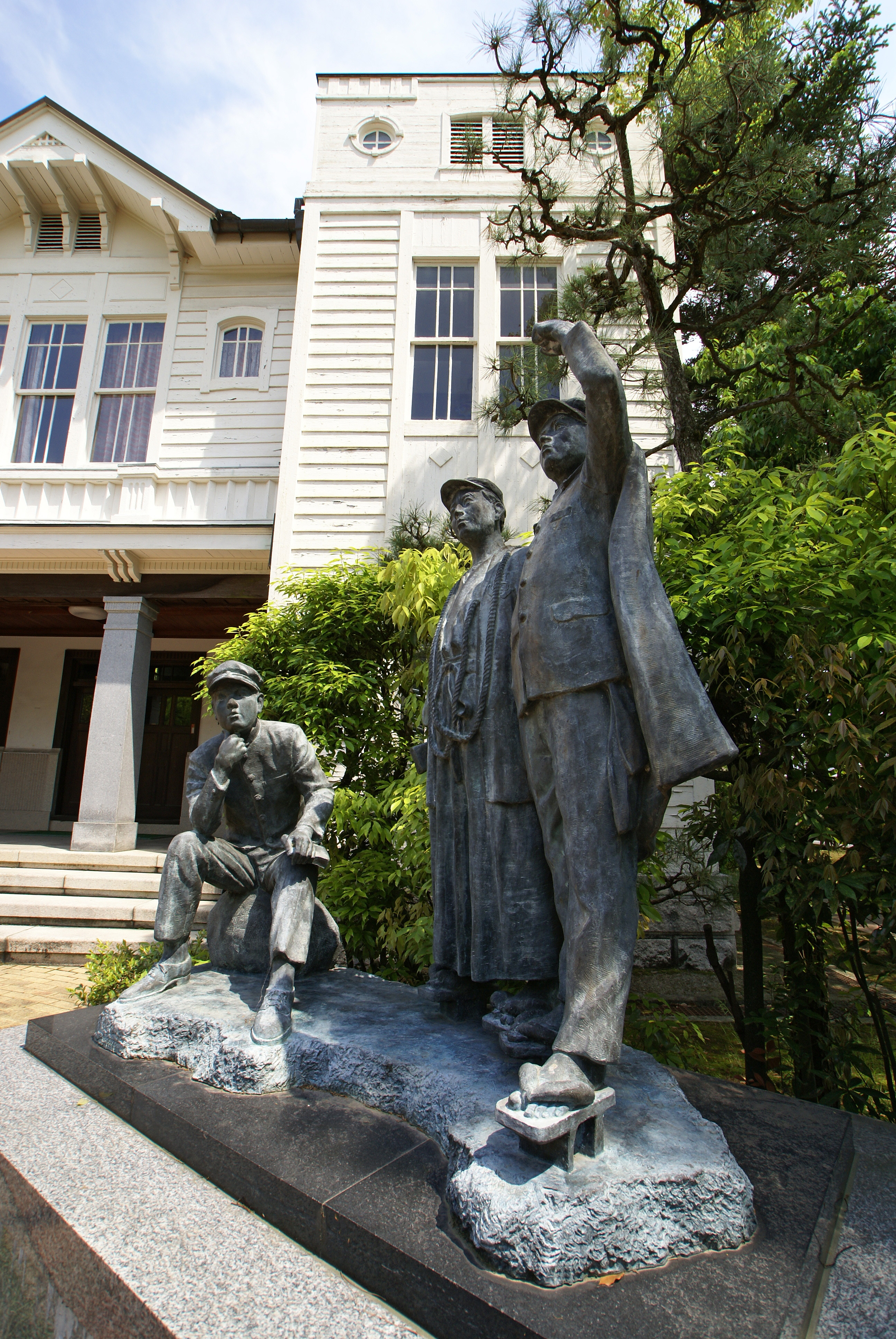 University of Hyogo in Himeji, Hyogo prefecture, Japan